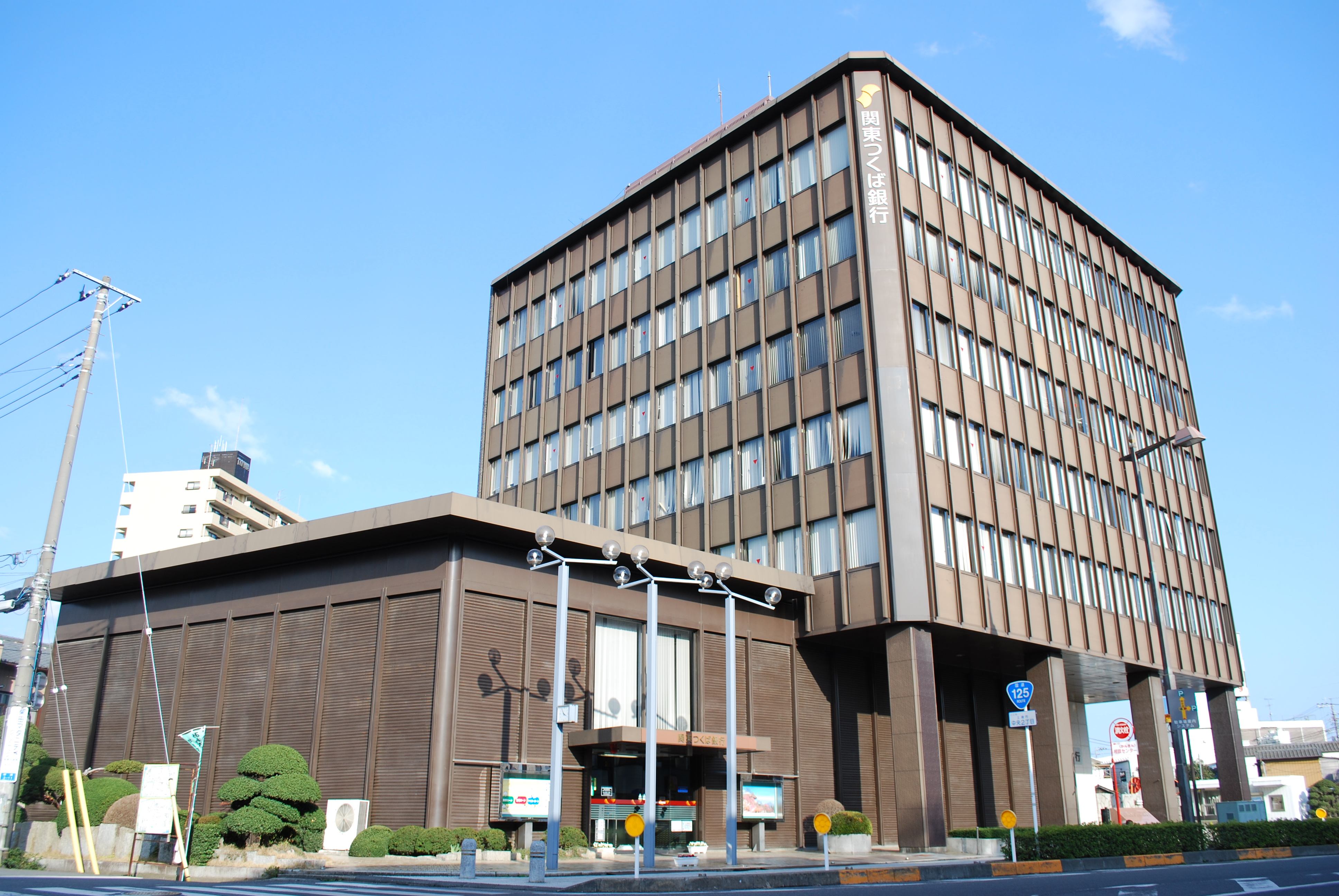 Bank of Kanto-Tsukuba head office, Tsuchiura-city, Ibaraki, Japan